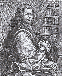 Joannes Laurentius Krafft (1694-1768), engraver and Dutch and French poet in Brussels